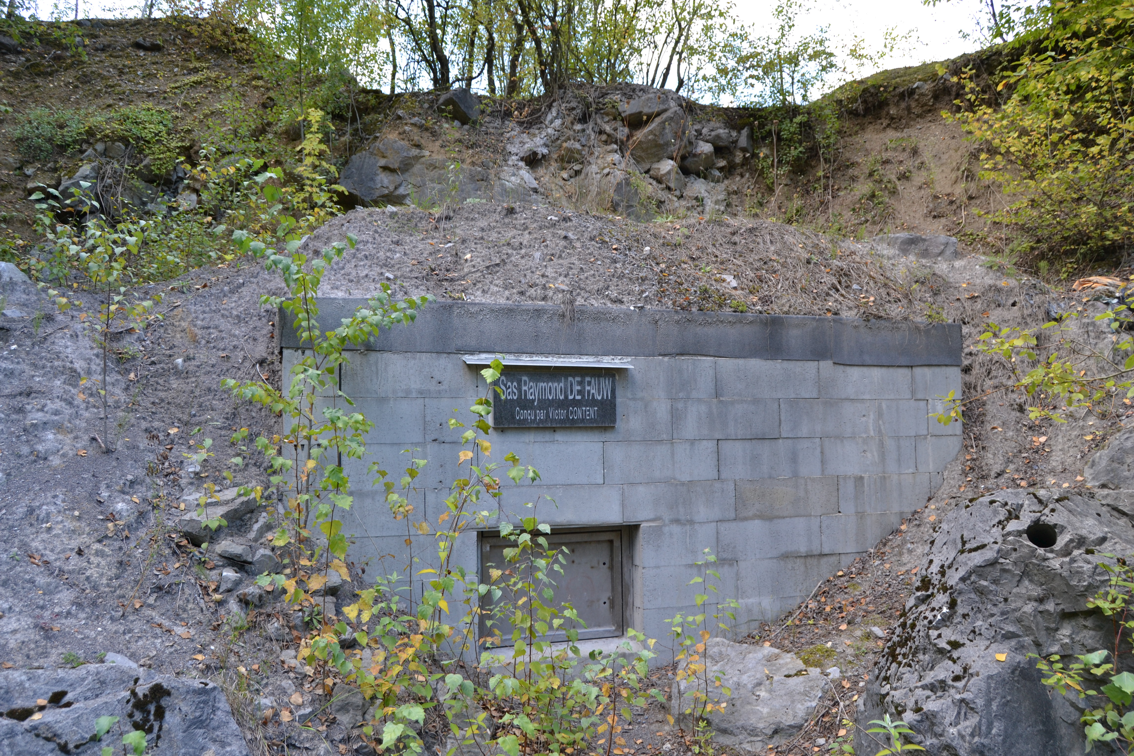 Entry of the Rosée Cave in Engihoul, Engis, Liège, Belgium